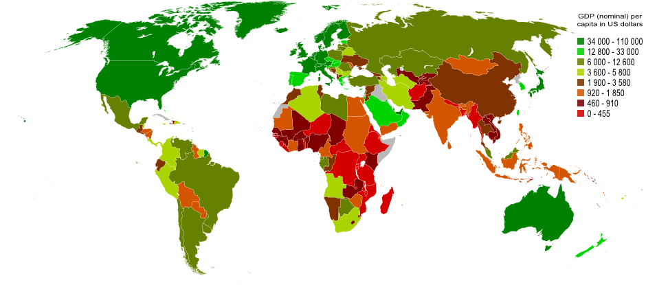 a map of the world showing GDP (nominal) per capita for each country.